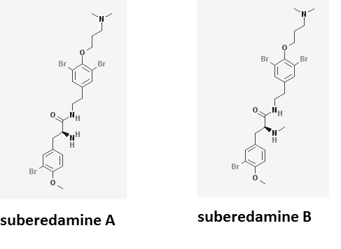 Suberedamine A&B